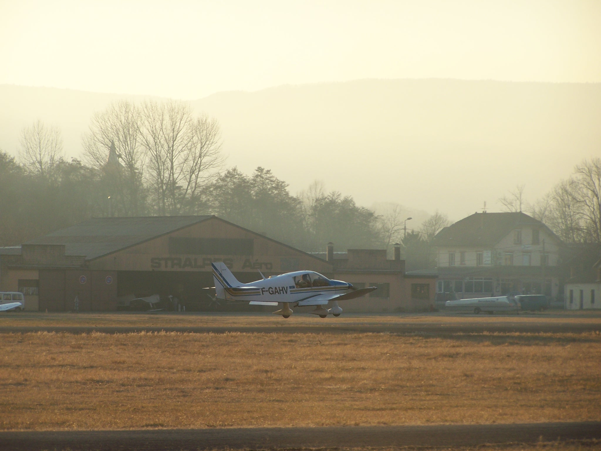 Landing plane on Challes les Eaux aerodrome near Chambéry, in Savoie, France.